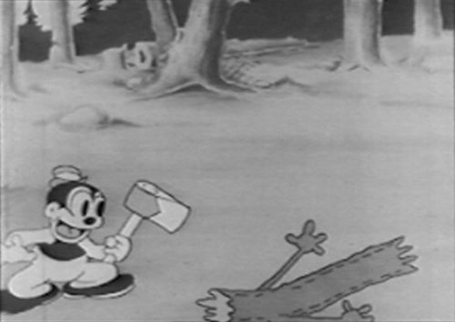 scene from public domain animated feature Bosko the Lumberjack